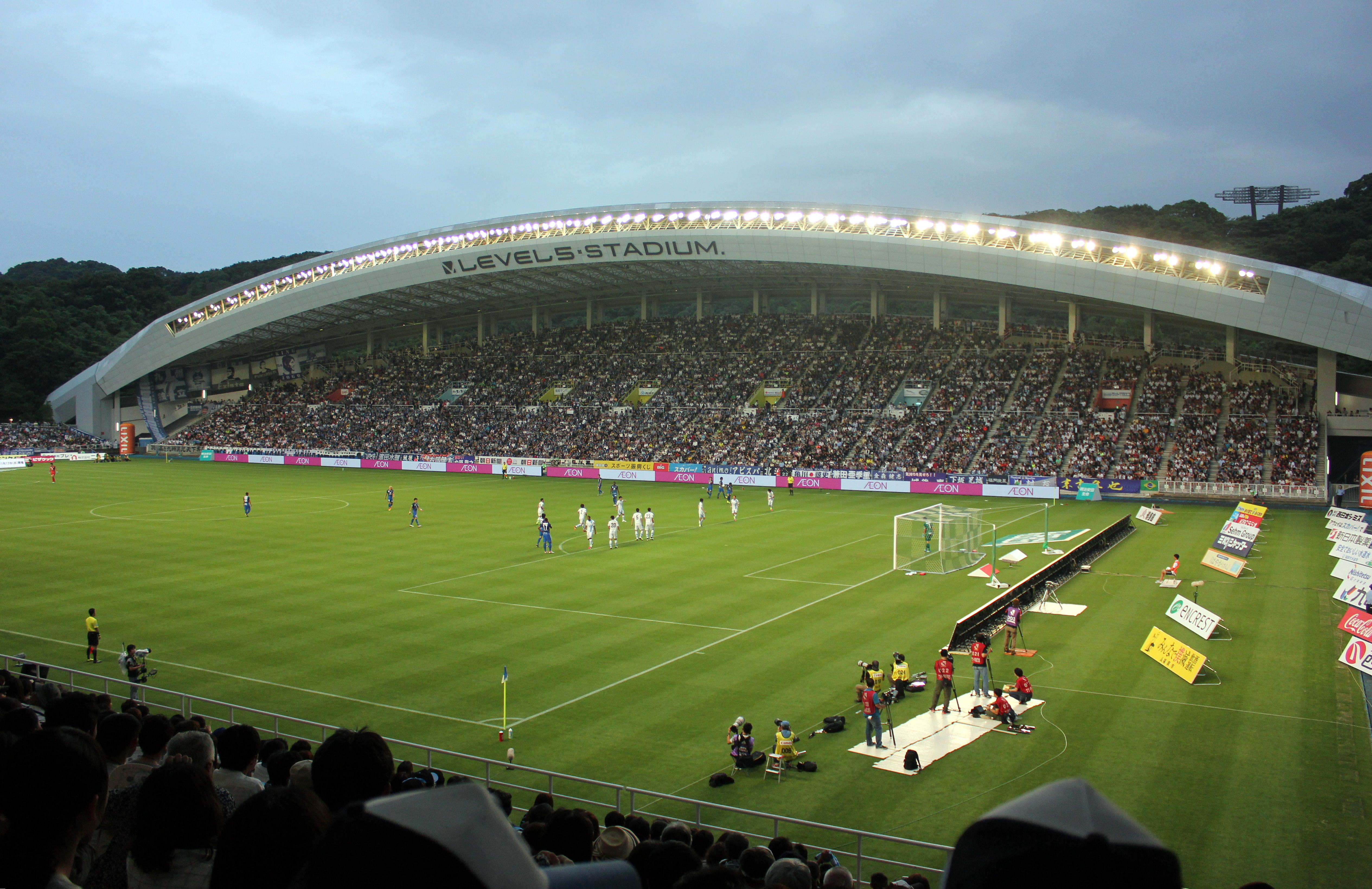 Hakatanomori-Kyugijo(Level-5 Stadium)